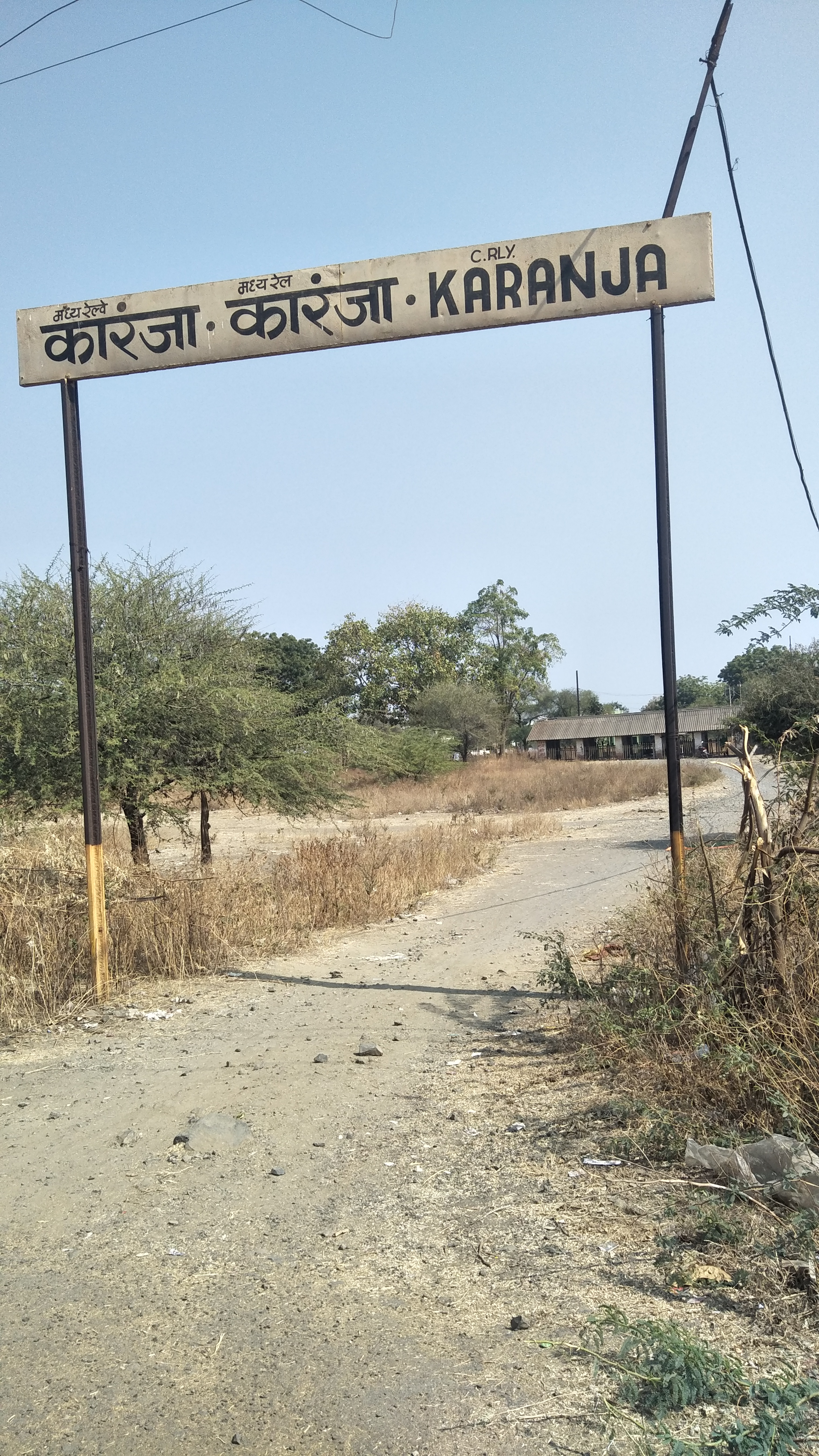 Historic Entrance,Karanja Lad,Railway Station,Maharashtra,India